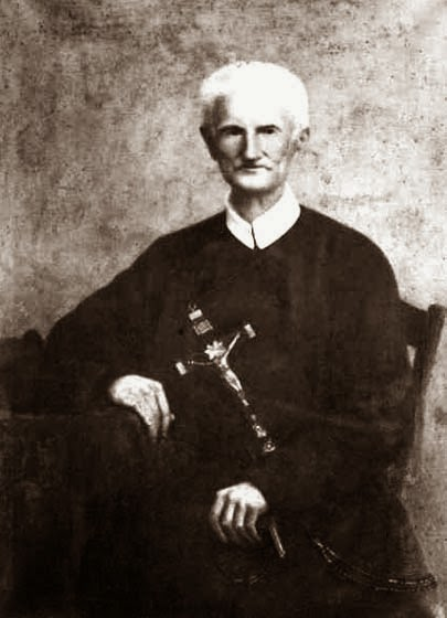 Peerke Donders (1809-1887)